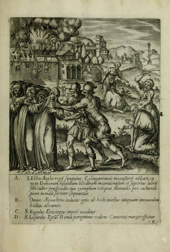 Plate 18 from Ecclesiae Anglicanae Trophae, a collection of engravings by Giovanni Battista de'Cavalieri after murals by Nicolò Circignano in the chapel of the Venerable English College, Rome. It shows the mutilation of Saint Æbbe, among other scenes.